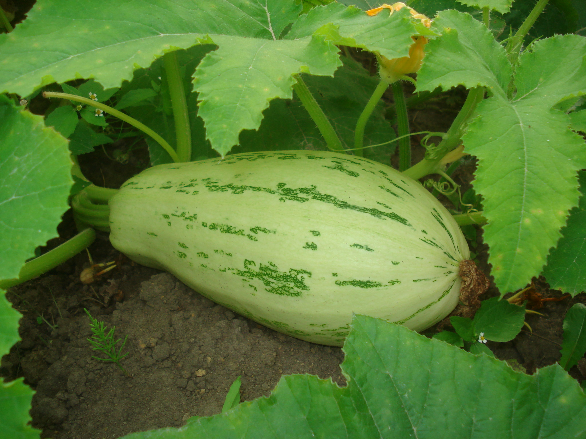 (Cucurbita pepo var. giromontina). Found in Berzi near Bauska city, Latvia